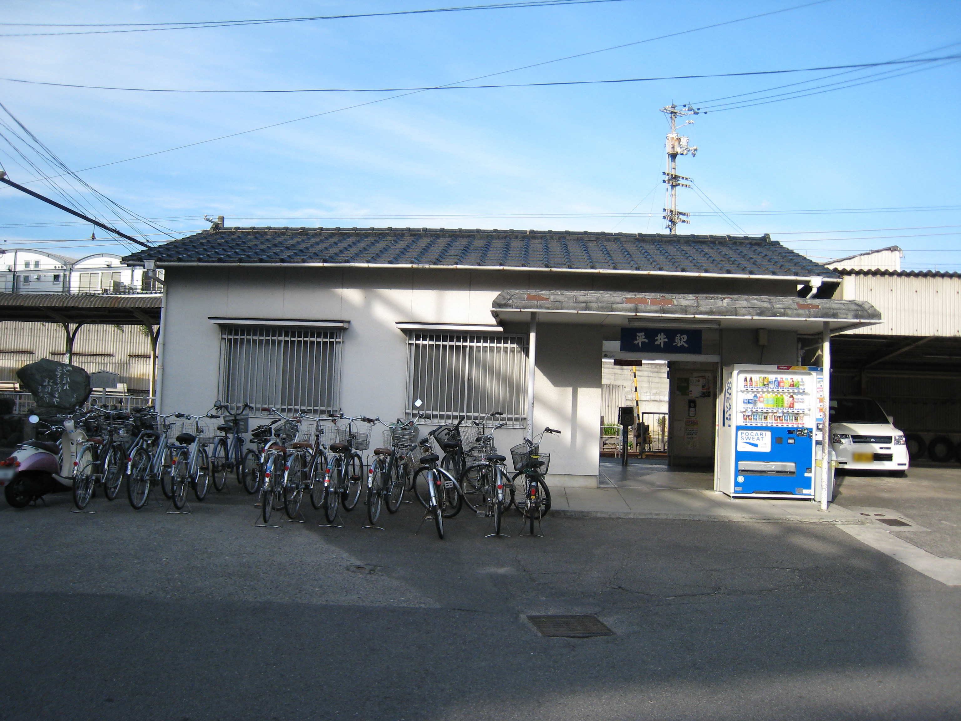 Iyo Railway [Sta.Hirai]